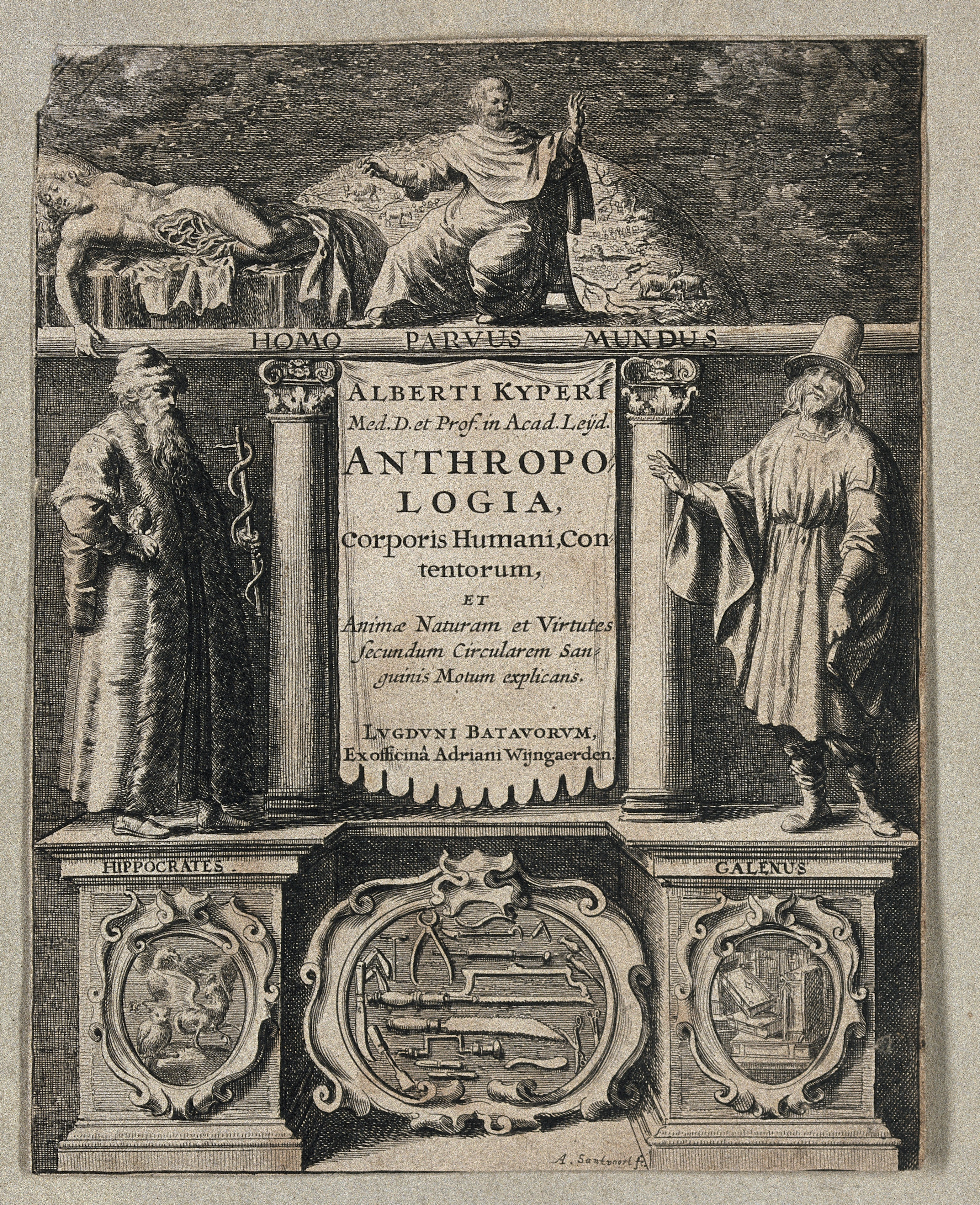 Above, a man studying the entrails of a cadaver as the microcosm, with the macrocosm behind; below, Hippocrates, holding the staff of Aesculapius, and Galen; bottom, instruments for anatomy and surgery. Title page to: Albert Kyper, "Anthropologia corporis humani ..." Iconographic Collections Keywords: Abraham Dircks Santvoort